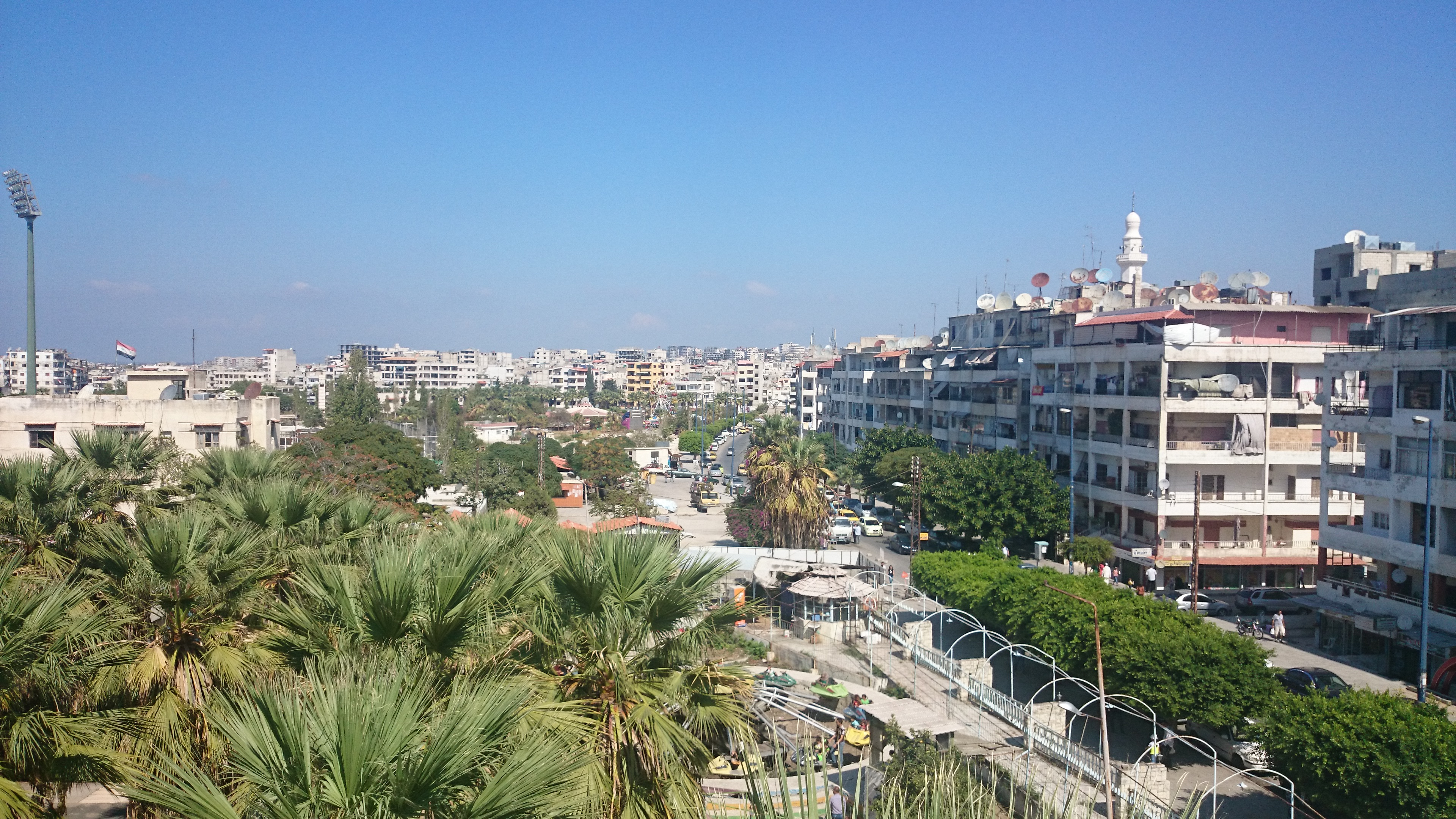 Skyline of Latakia, an important Syrian port and one of Syria's largest cities.